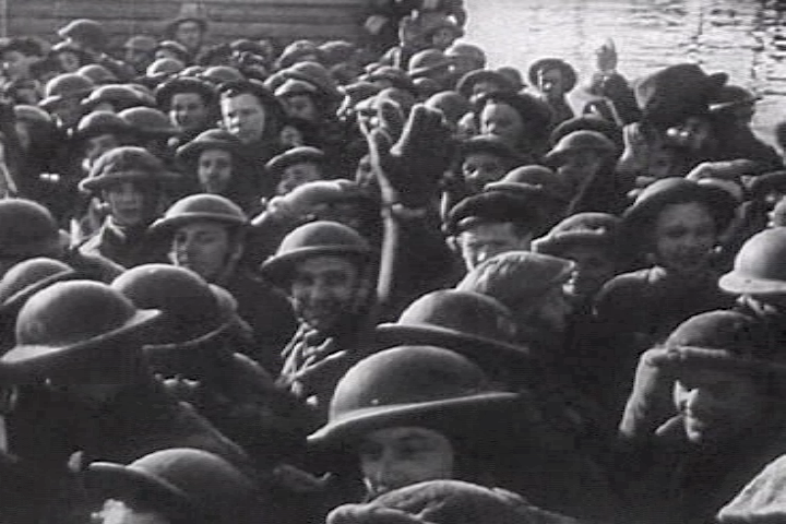 British troops rescued in a ship at Dunkirk (France, 1940). Screenhot taken from the 1943 United States Army propaganda film Divide and Conquer (Why We Fight #3) directed by Frank Capra and partially based on, news archives, animations, restaged scenes and captured propaganda material from both sides.